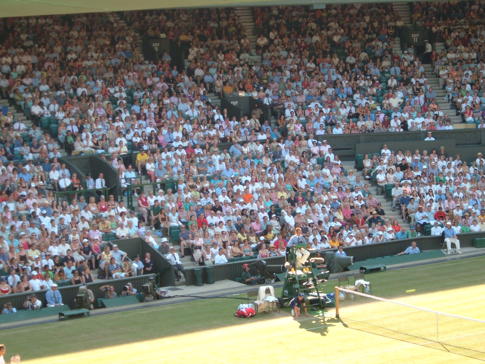 The umpire and crowd at Centre Court at the Wimbledon Championships, 2006